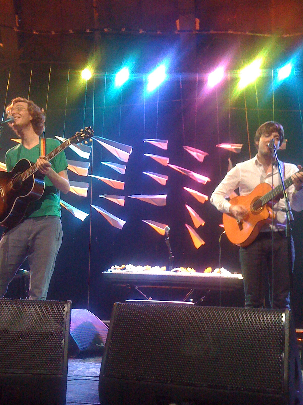 Norwegian duo Kings of Convenience performing live at Teatro la Cúpula, Santiago de Chile.